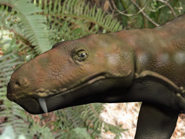 Eriphostoma (formerly Eoactops vanderbyli), Late Permian of South Africa. Digital.